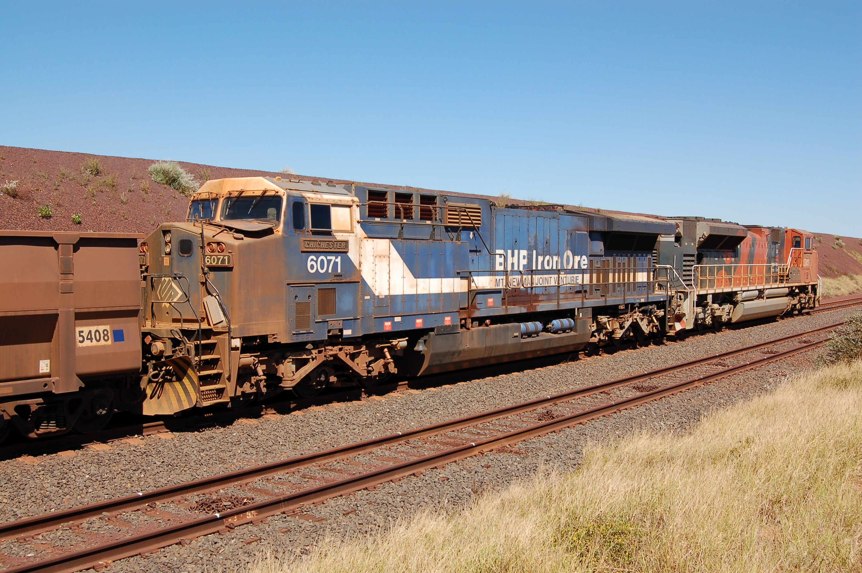 BHP Billiton Iron Ore GE AC6000CW no. 6071 Chichester (left) and EMD SD70ACe no. 4341 Oroville (right), at the head of a train being unloaded at the northern end of the Finucane Island loop, on the Goldsworthy railway.